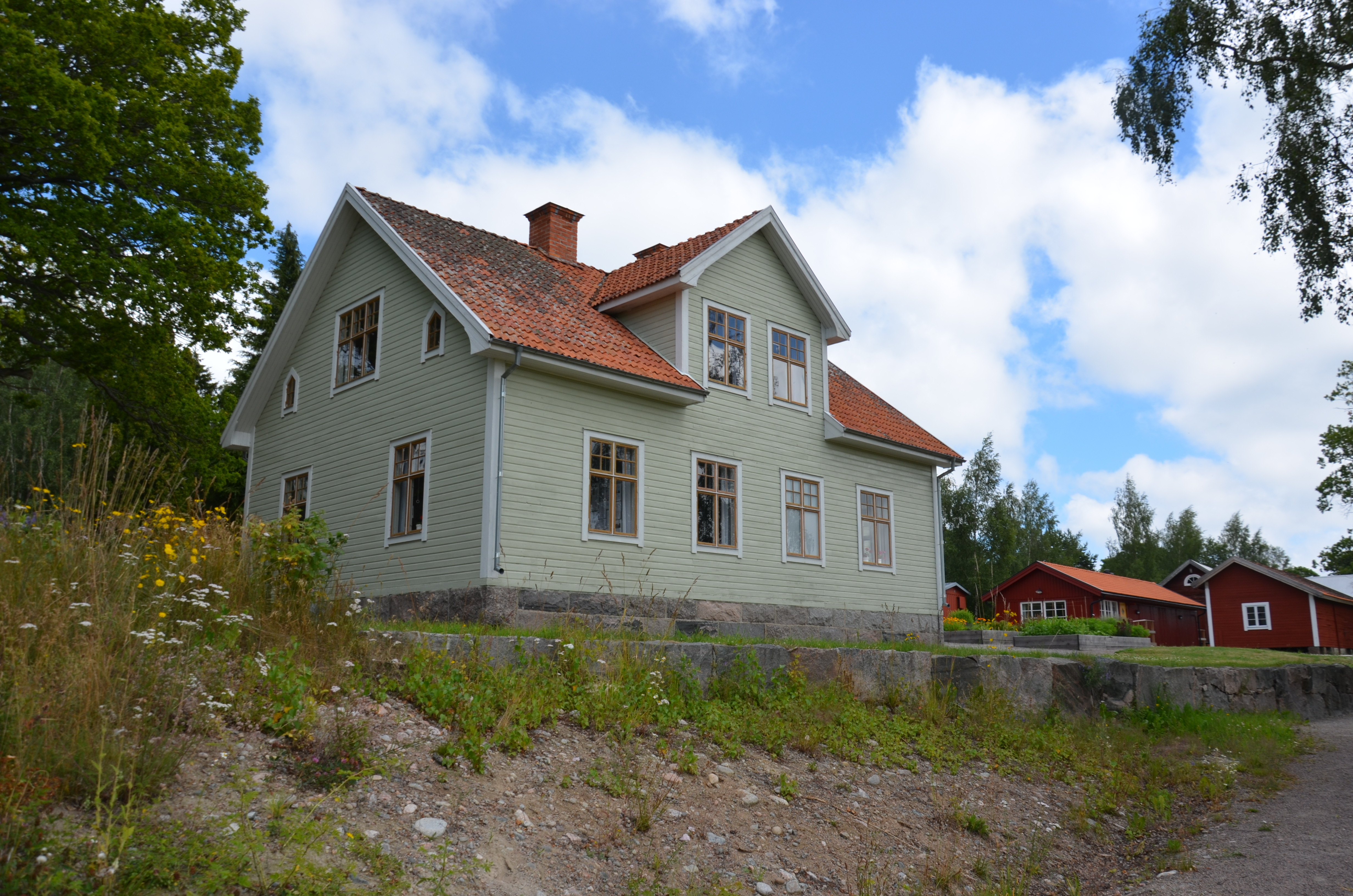 Edgards, Nedre Lagnö 2:1